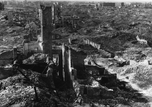 Warsaw Ghetto, smashed into the ground by German destroying forces (de.: Vernichtungskommando), according to Adolf Hitler`s order, after supressing of the Warsaw Ghetto Uprising in 1943. North view from Courthouse at Leszno street, in the foreground is seen the ruins of houses: Leszno 52 and 50, photo taken in 1945.